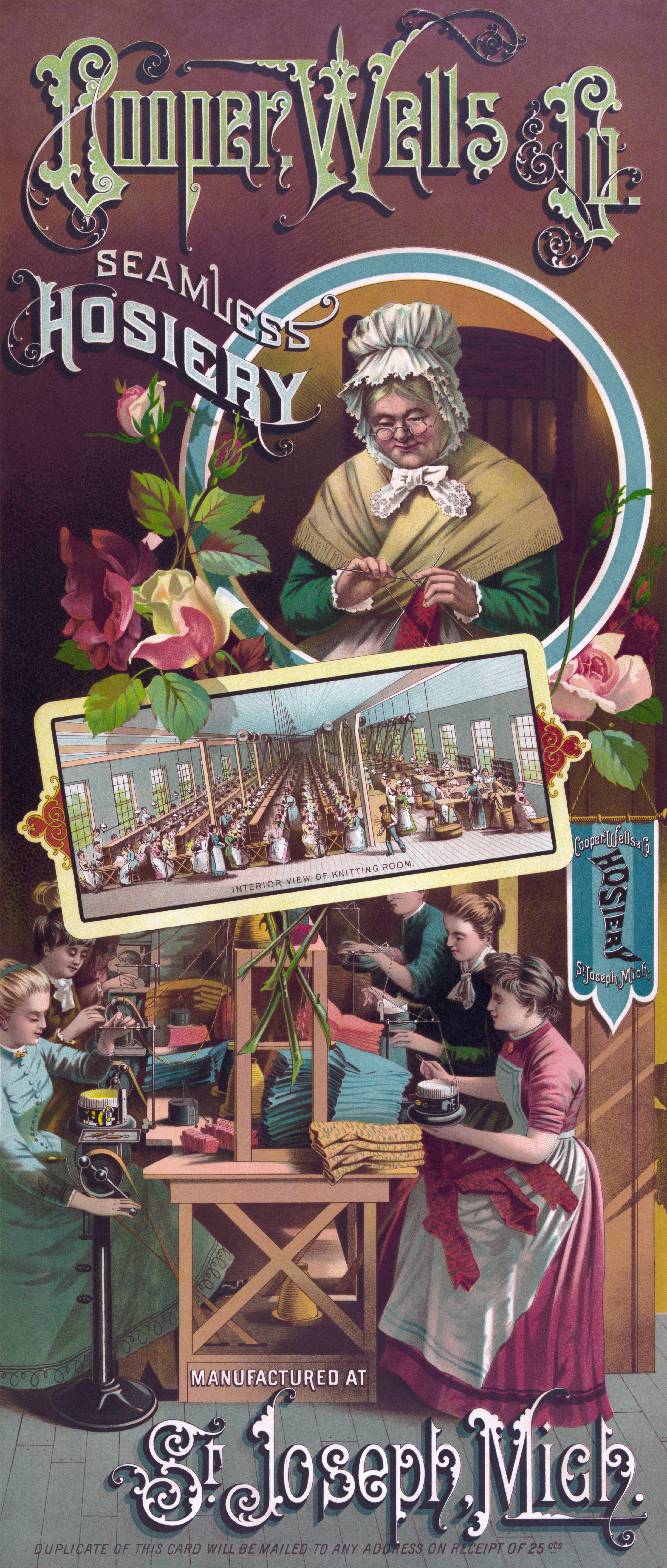 "Cooper, Wells & Co. seamless hosiery".